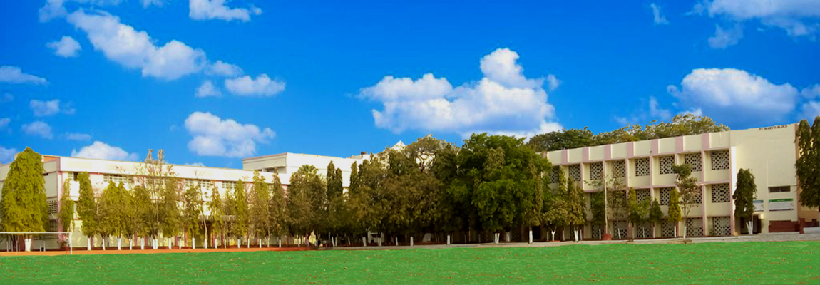 SALEM HOLY CROSS GROUND AND SAINT MARY BLOCK